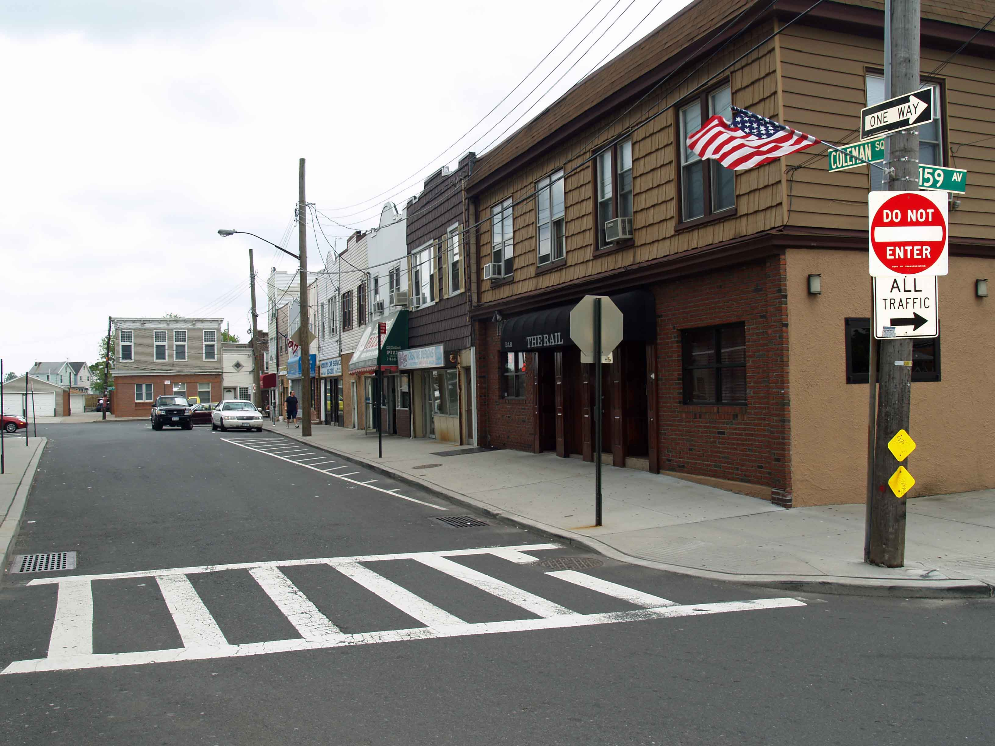 Coleman Square by David Shankbone